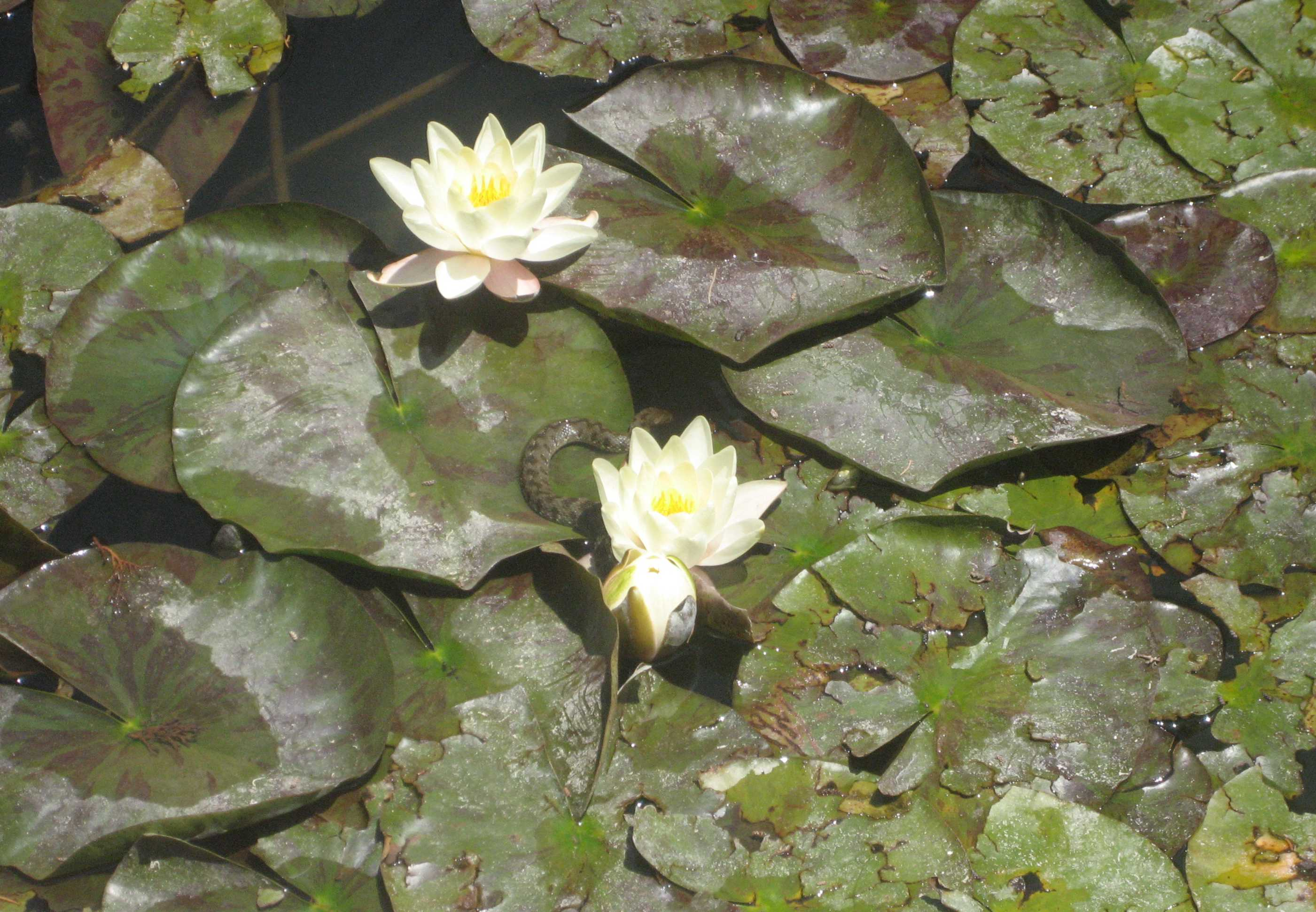 take a closer look...